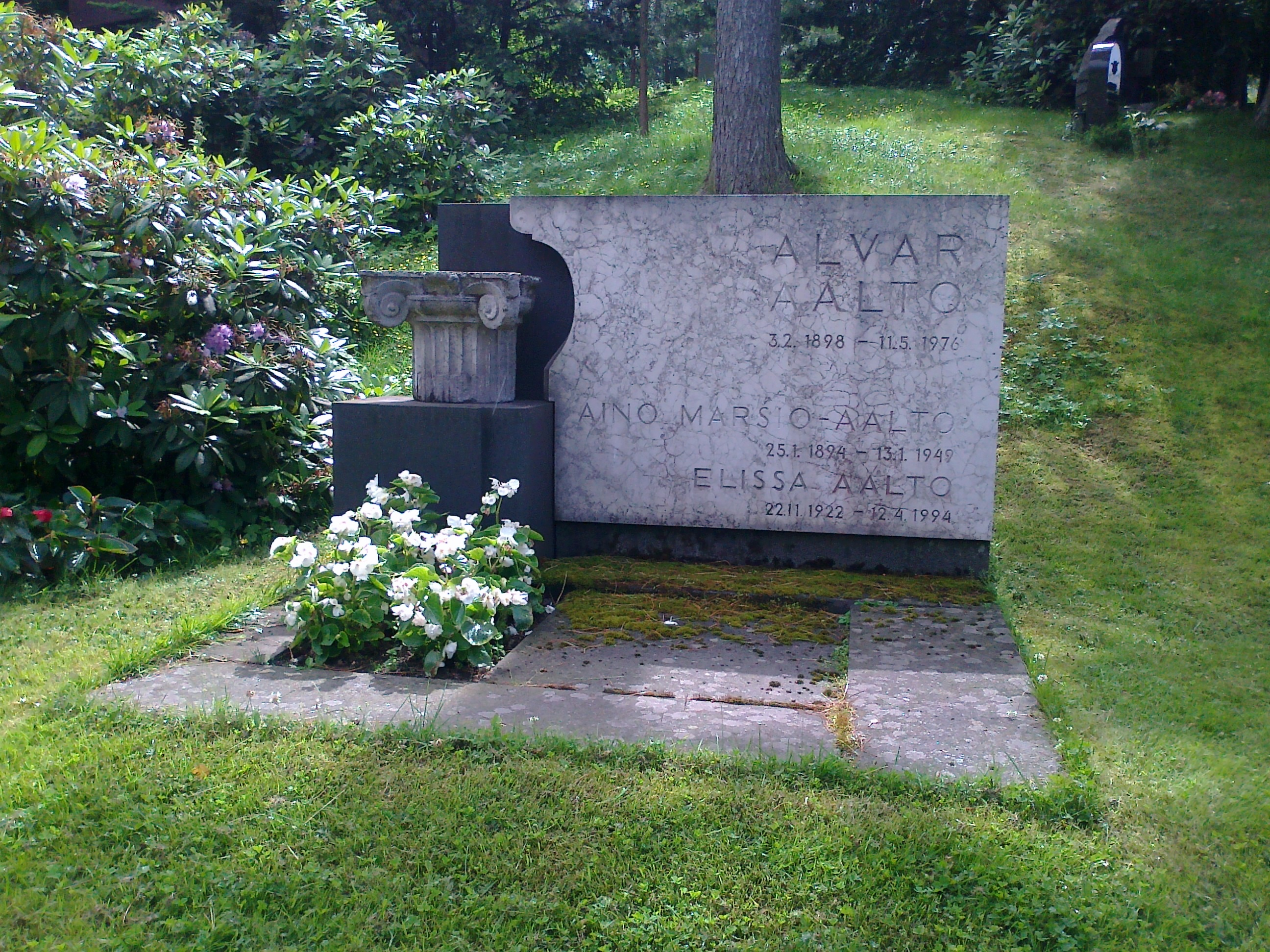 Photograph of the grave of Alvar Aalto, Aino Aalto and Elissa Aalto in Helsinki.